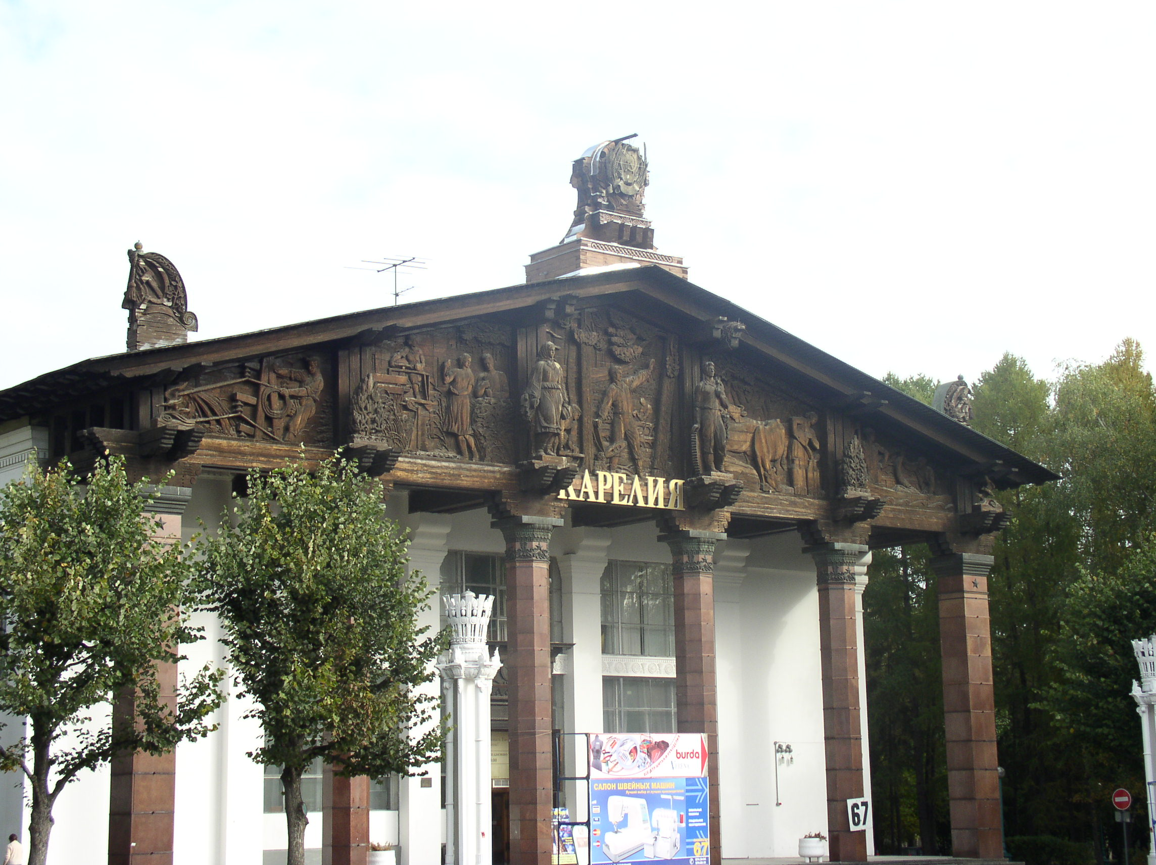 Russia, Moscow, (VDNKh)